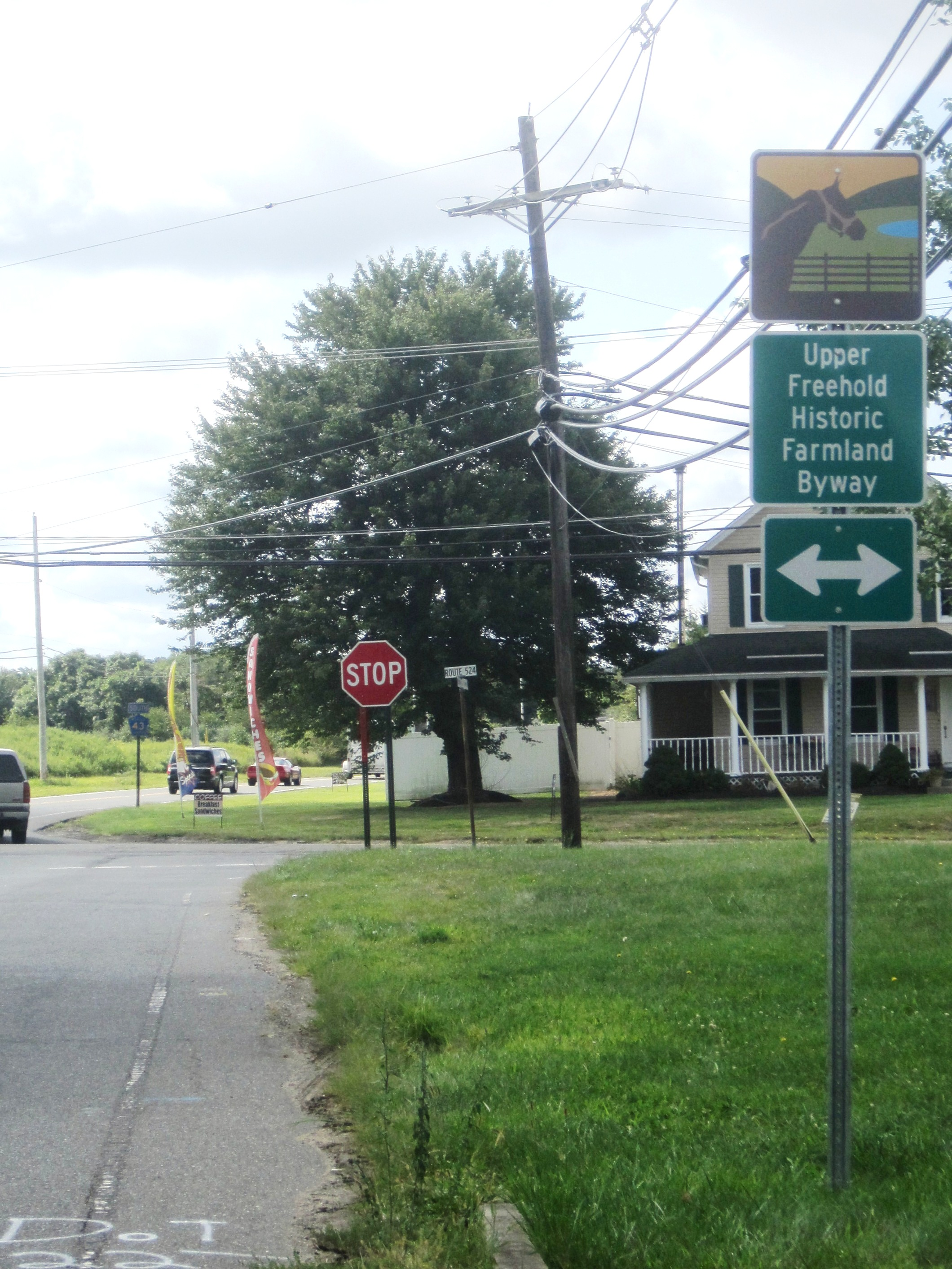 Photo of a typical sign for a New Jersey Scenic Byway. Pictured here is a sign for the Upper Freehold Historic Farmland Byway as seen on Imlaystown-Hightstown Road southbound approaching County Route 524.